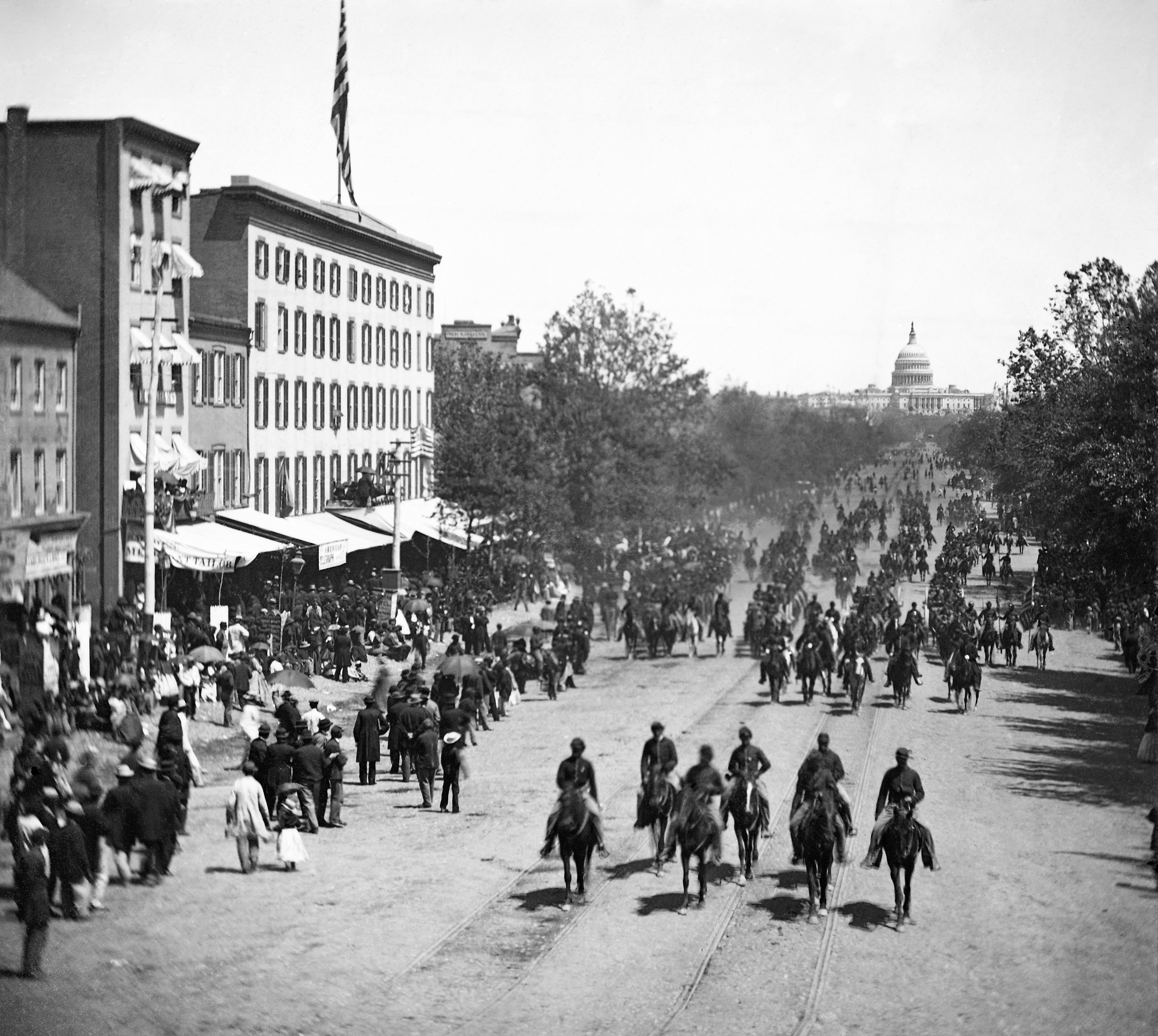 Mathew Brady photograph of Pennsylvania Avenue, Washington, D.C. Category:United States history images Category:Images of Washington, D.C. The Grand Review of triumphant Union armies down Pennsylvania Avenue in May 1865. Image depicts Gen. Henry W. Slocum (commander of the Army of Georgia) and his staff passing near the Treasury Department building.